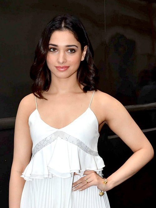 Tamannaah promoting the film Tutak Tutak Tutiya on the sets of Super Dancer 2 at Mumbai, in September 2016.